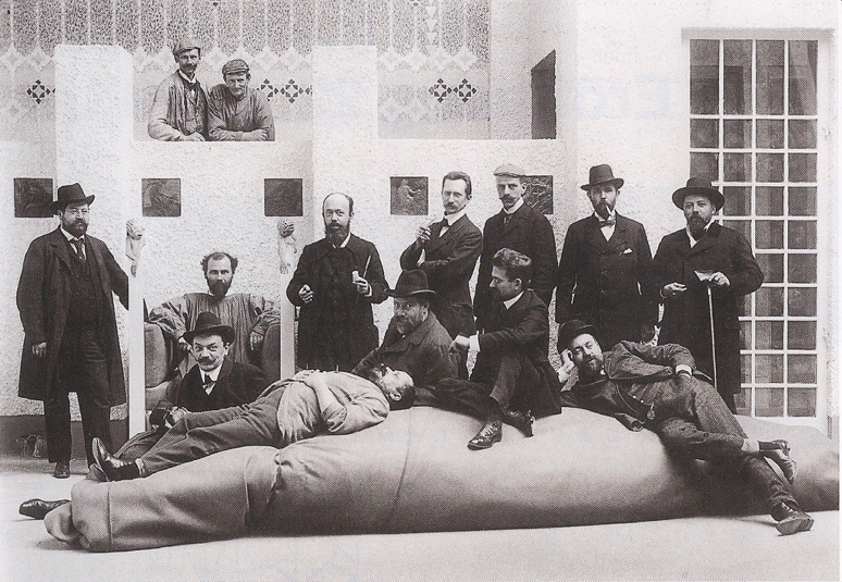 Group portrait of members of the Vienna Secession at the 14th exhibition in 1902: From left to right: Anton Stark, Gustav Klimt (in the chair), Koloman Moser (before Klimt with hat) Adolf Böhm, Maximilian Lenz (lying), Ernst Stöhr (with hat), Wilhelm List, Emil Orlik (seated), Maximilian Kurzweil (with cap), Leopold Stolba, Carl Moll (horizontal), Rudolf Bacher.